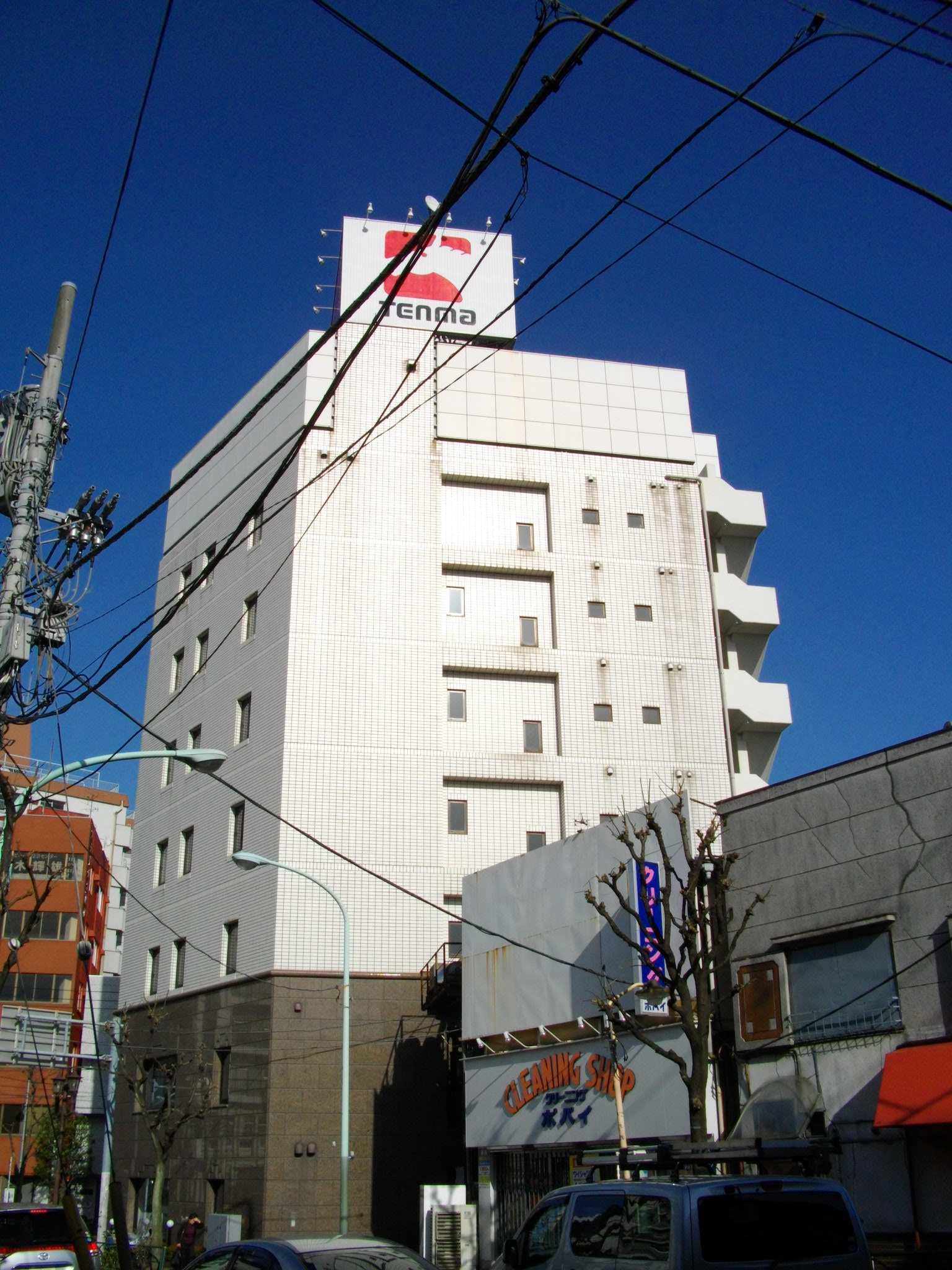 Tenma Head Office